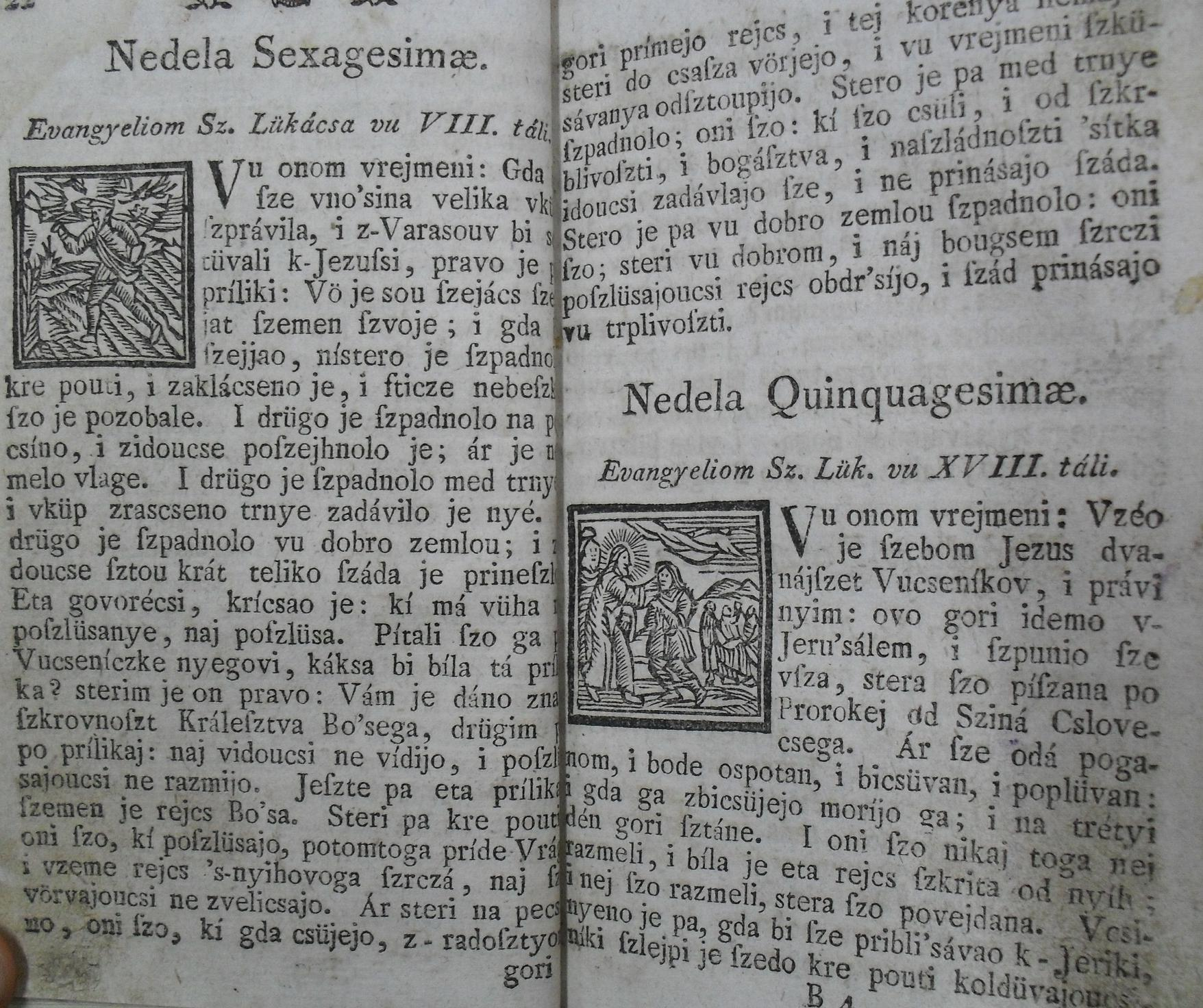 Luke's Gospel about the Sower and the Blind Beggar in Jericho in prekmurian language. Miklós Küzmics: Szvéti evangyeliomi (1804)